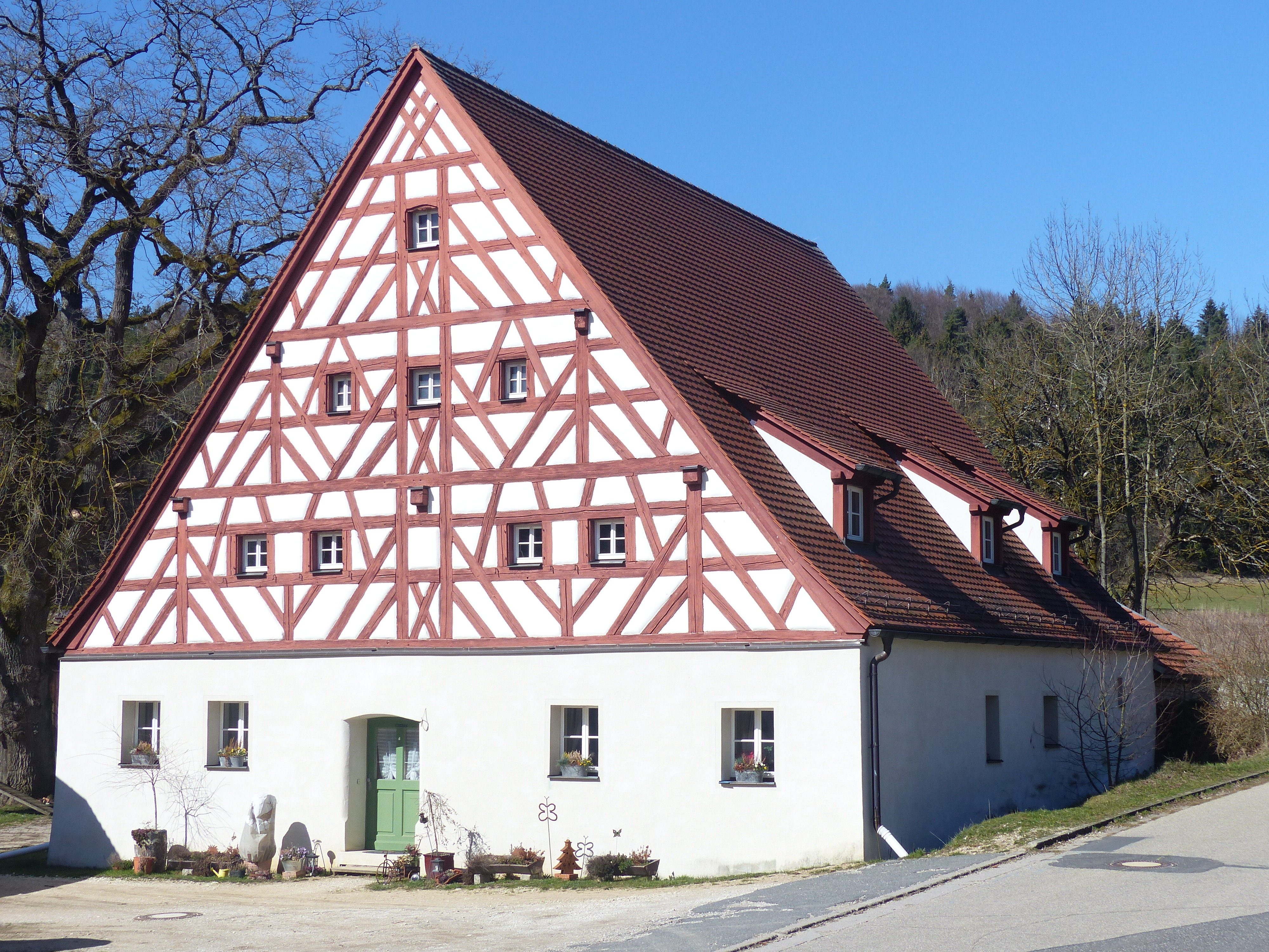 A farmhouse / byre-dwelling house with the house number 14 in the village Albersdorf, a district of the municipality Etzelwang